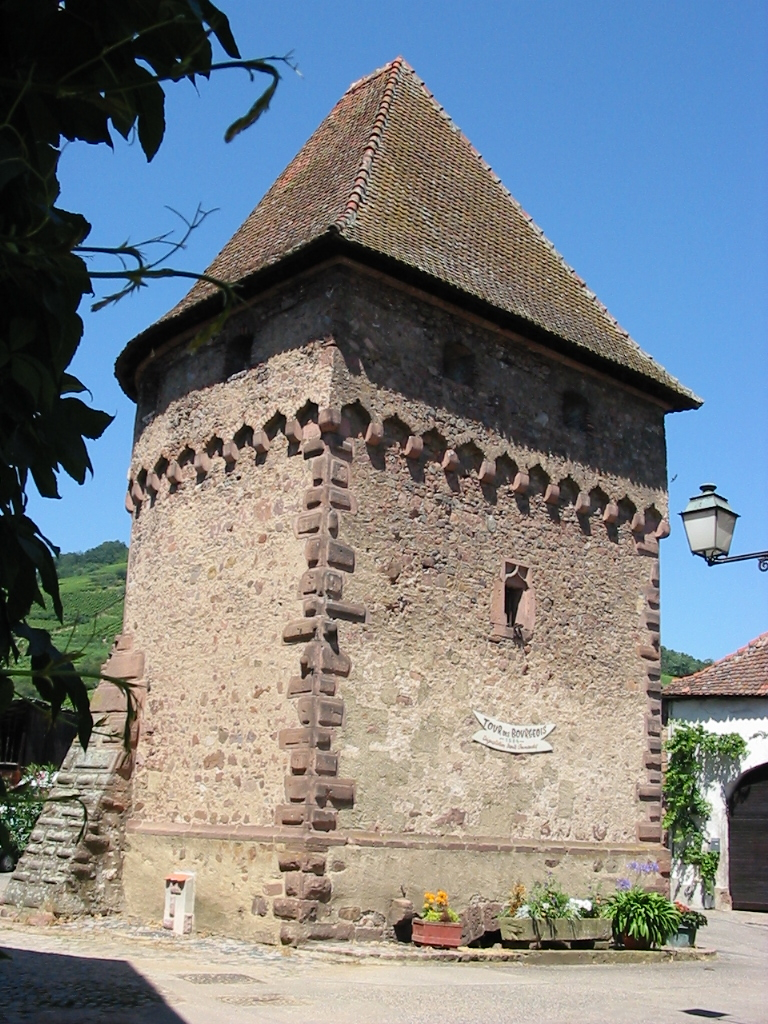 Ammerschwihr, commune in the Haut-Rhin department in Alsace in northeastern France. The " Middle-class' people tower" or " Bürgerturm ".